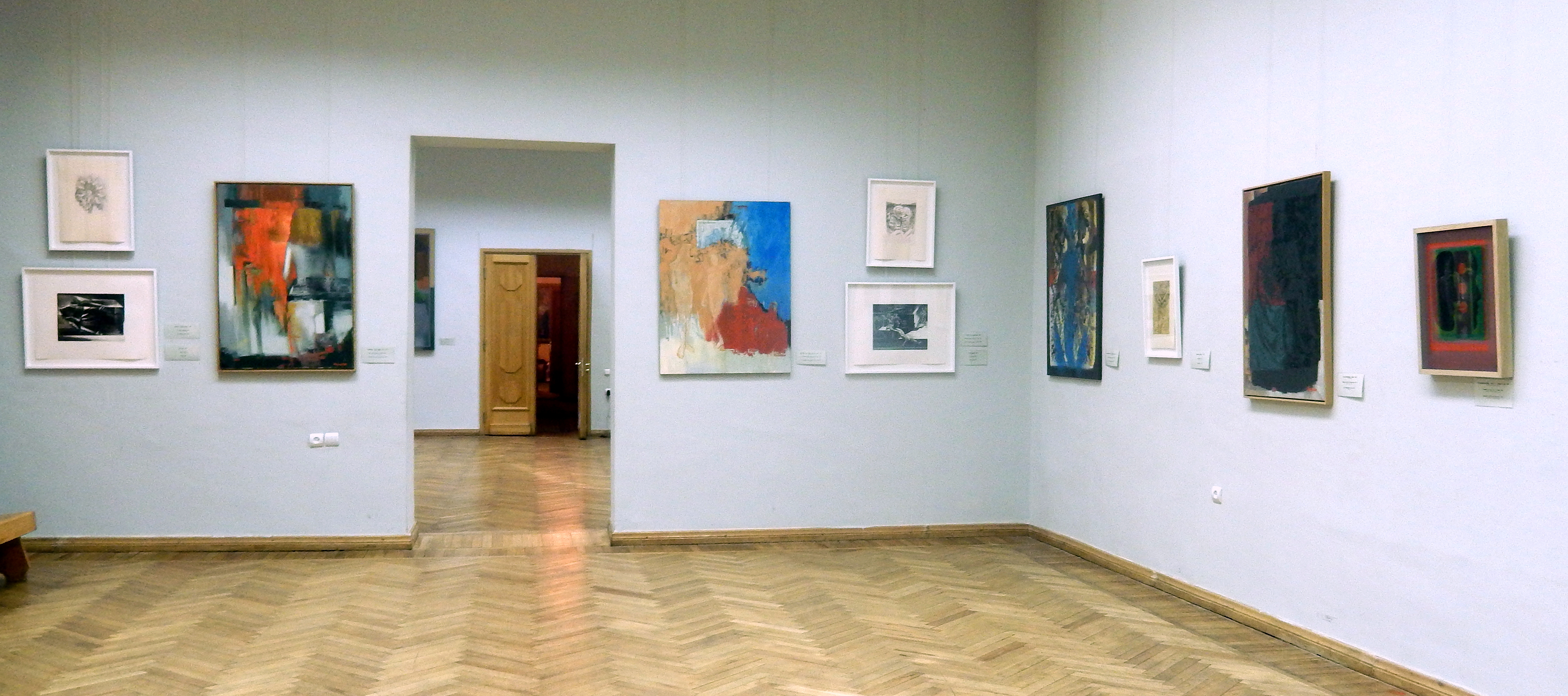 Jean Kazanjian's exhibition in National Gallery of Armenia, 2014